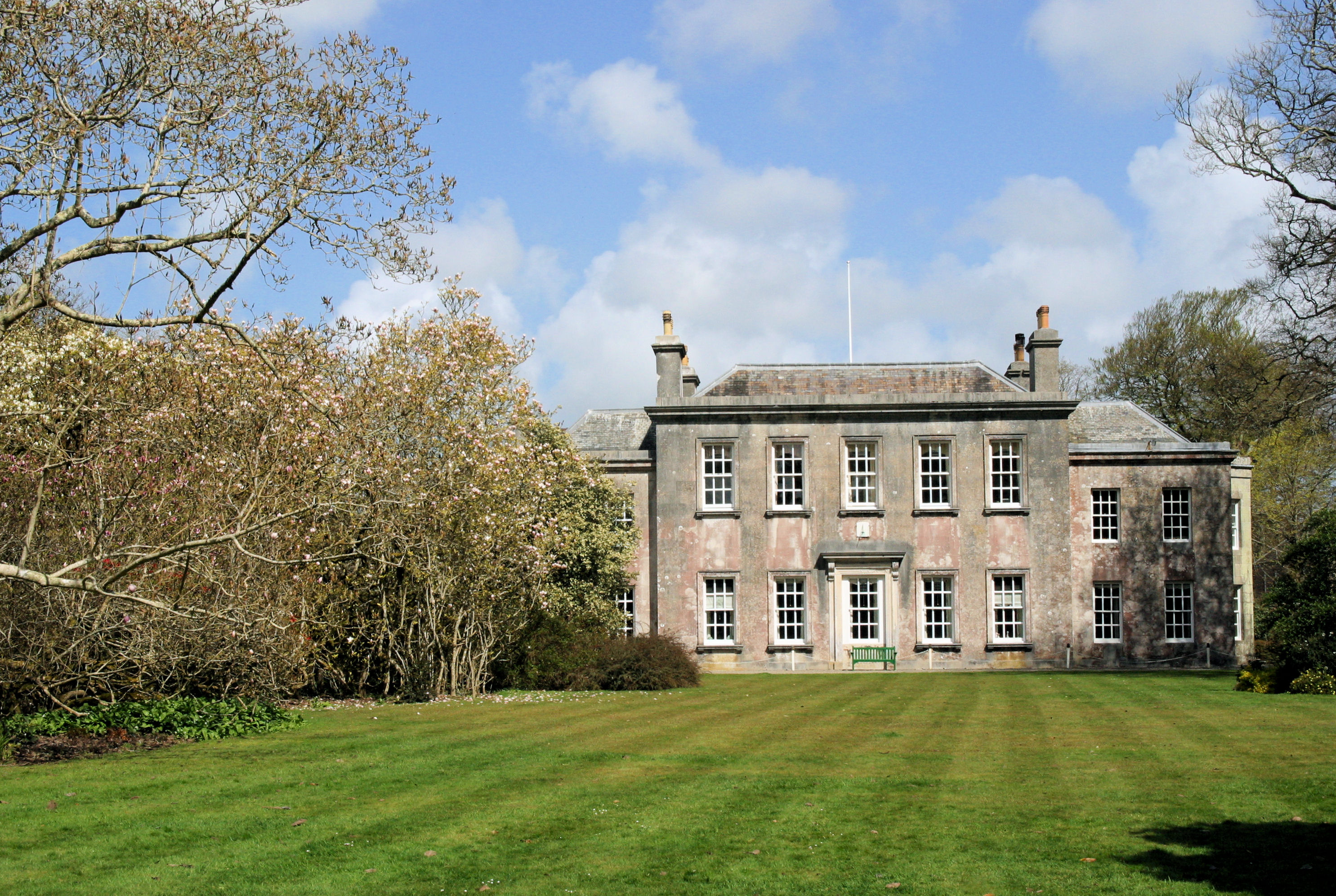 Western facade of Trewithen House